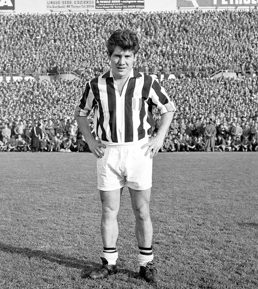 Italian-Argentines footballer Omar Sívori with Juventus F.C. between 1950s and 1960s, posing inside the Communal Stadium in Turin.